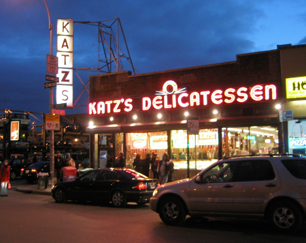 Katz's Delicatessen on Manhattan's Lower East Side, sunday evening in end of 2004.